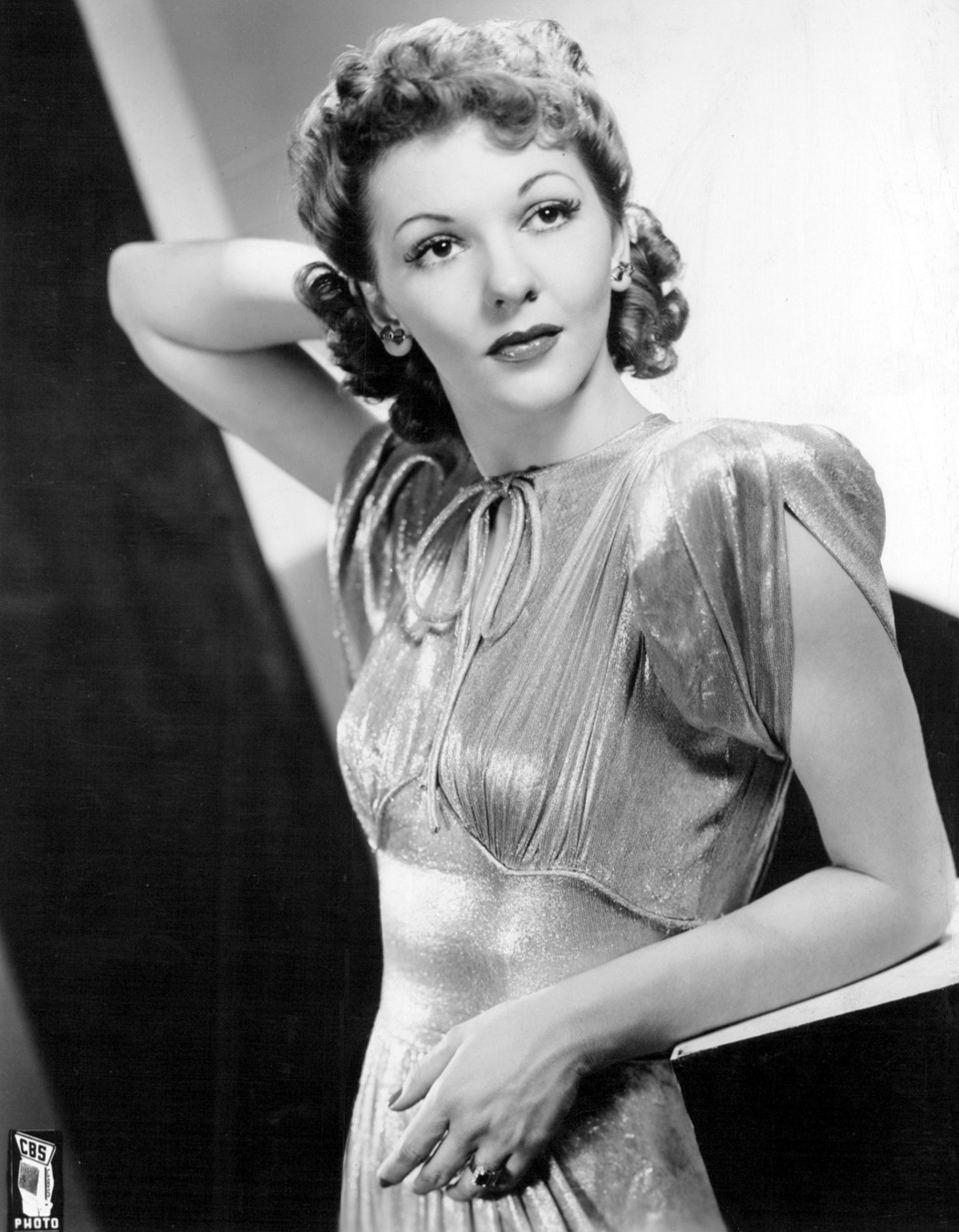 Photo of Mary Martin.